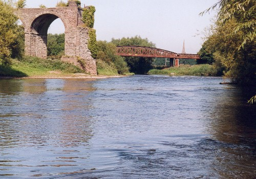 The River Wye in Monmouth with the two disused railway bridges in the foreground